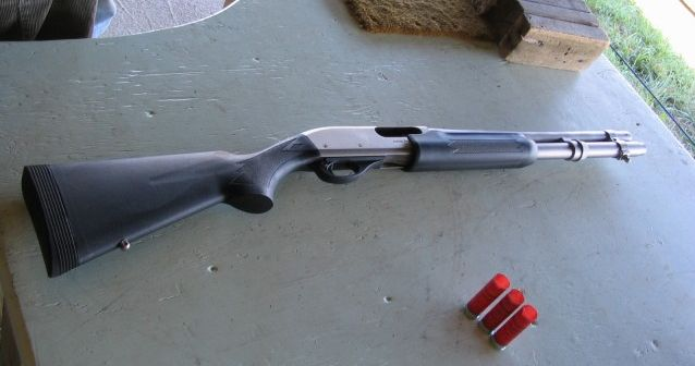 Remington 870 Marine Magnum. Photograph taken with my digital camera.